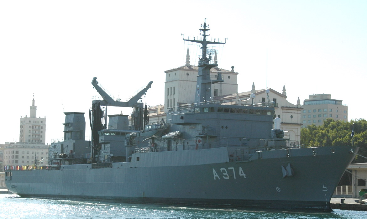 Greek Auxiliary ship Prometheus in the port of Malaga